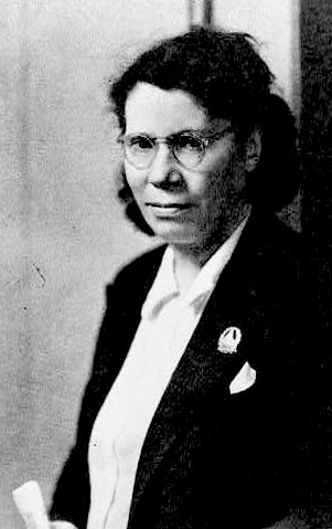 Italian labor leader Teresa Noce (1900-1980). Photograph published circa 1960.